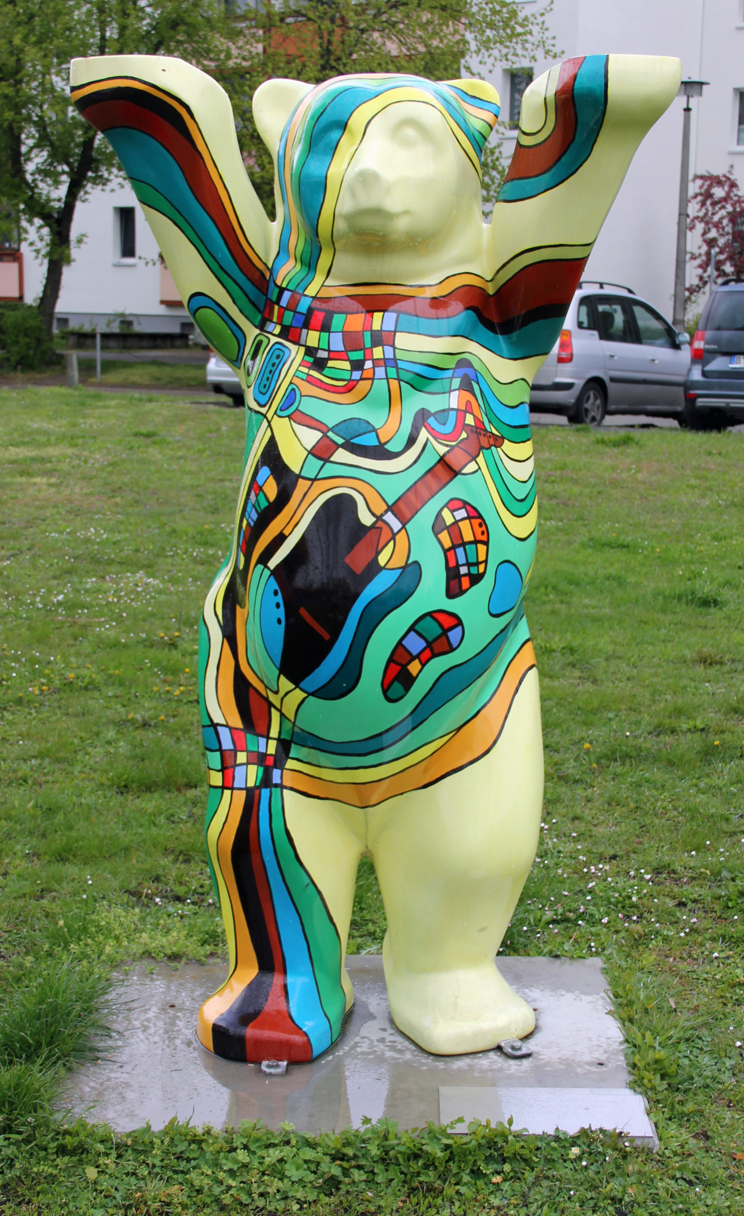 Buddy Bär, Egon-Erwin-Kisch-Straße 99, Berlin-Neu-Hohenschönhausen, Germany